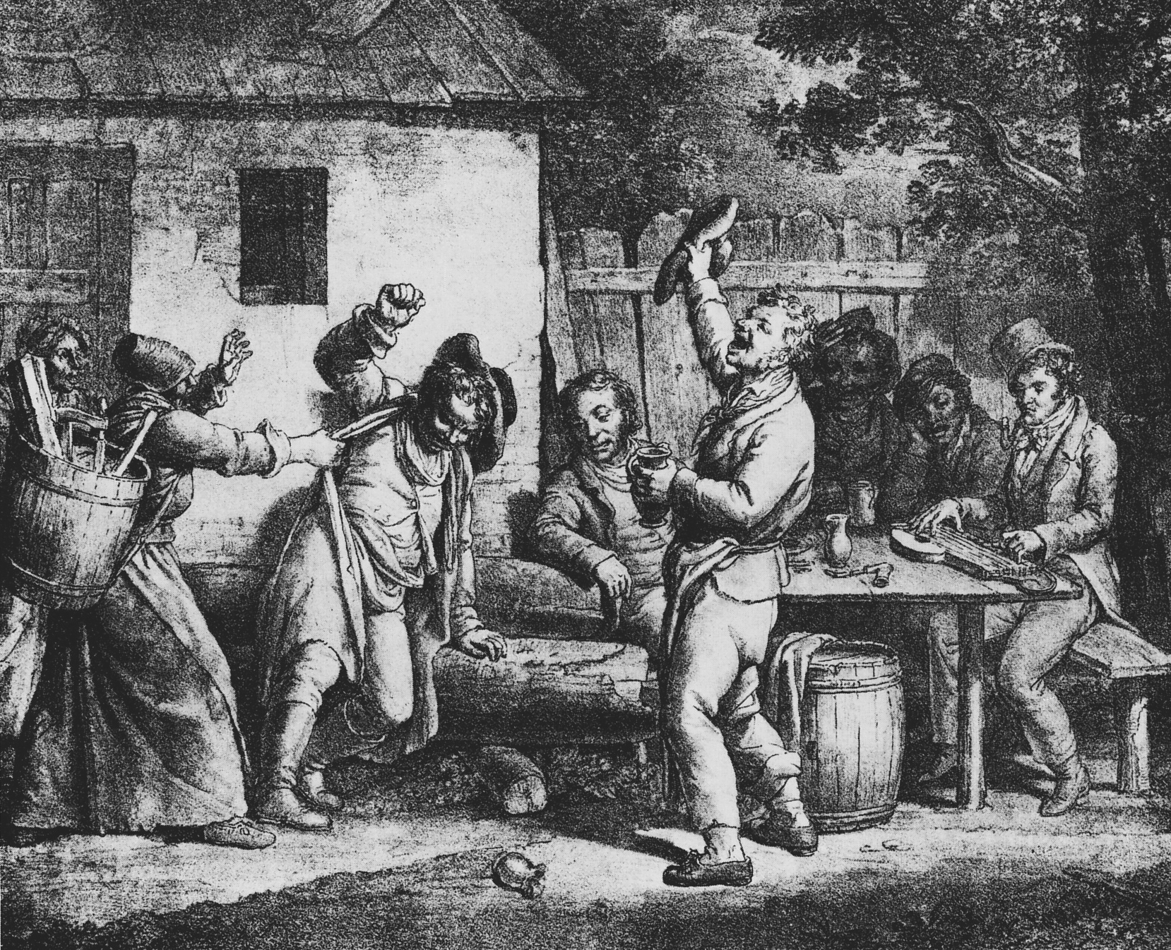 Saint Monday in the Prater wine tavern. Chalk lithograph, 28.3 x 36.5 cm. Collection: Wien Museum